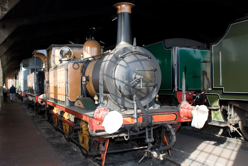 Locomotives inside the loco Shed at Sheffield Park on the Bluebell Railway. Engine at the front is Class A1X "Terrier" (32655) 55 Stepney